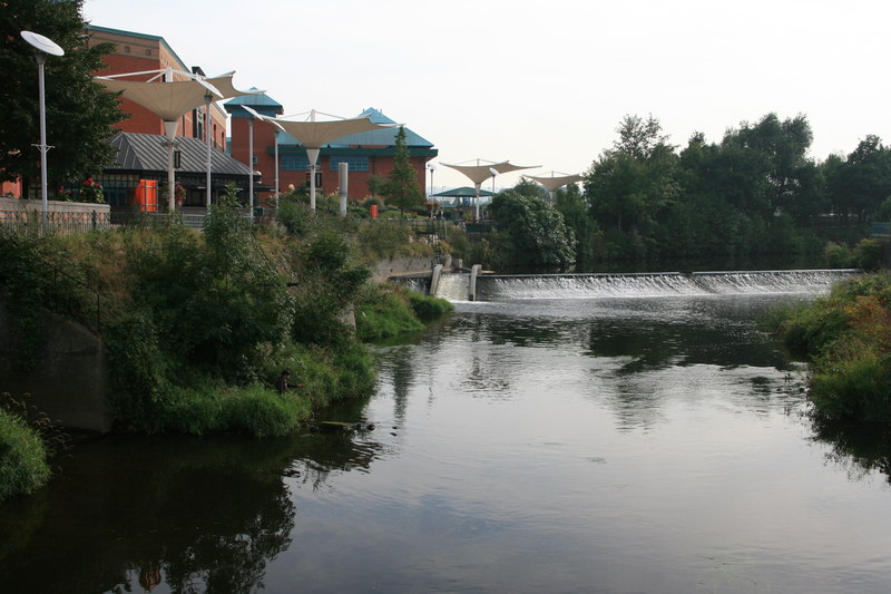 The end of the Five Weirs Walk Meadowhall shopping centre built on the Hadfields steelworks site and their weir on the Don